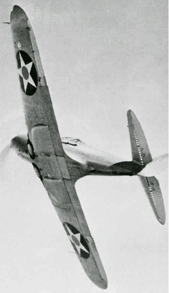 A Bell XFL-1 Airabonita in flight in 1941. The XFL-1 was a navalized P-39 Airacobra.